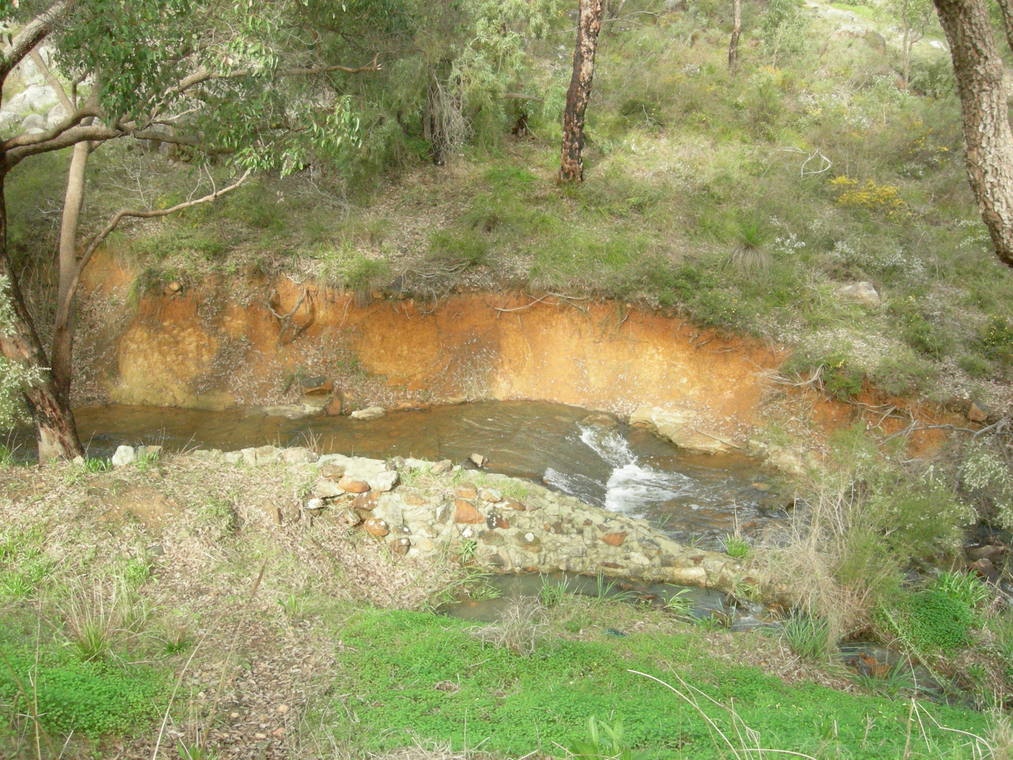 Nyannia creek, Darlington next to the Eastern Railway (Western Australia) first route - not far from the cutting that was called the Devils Terror